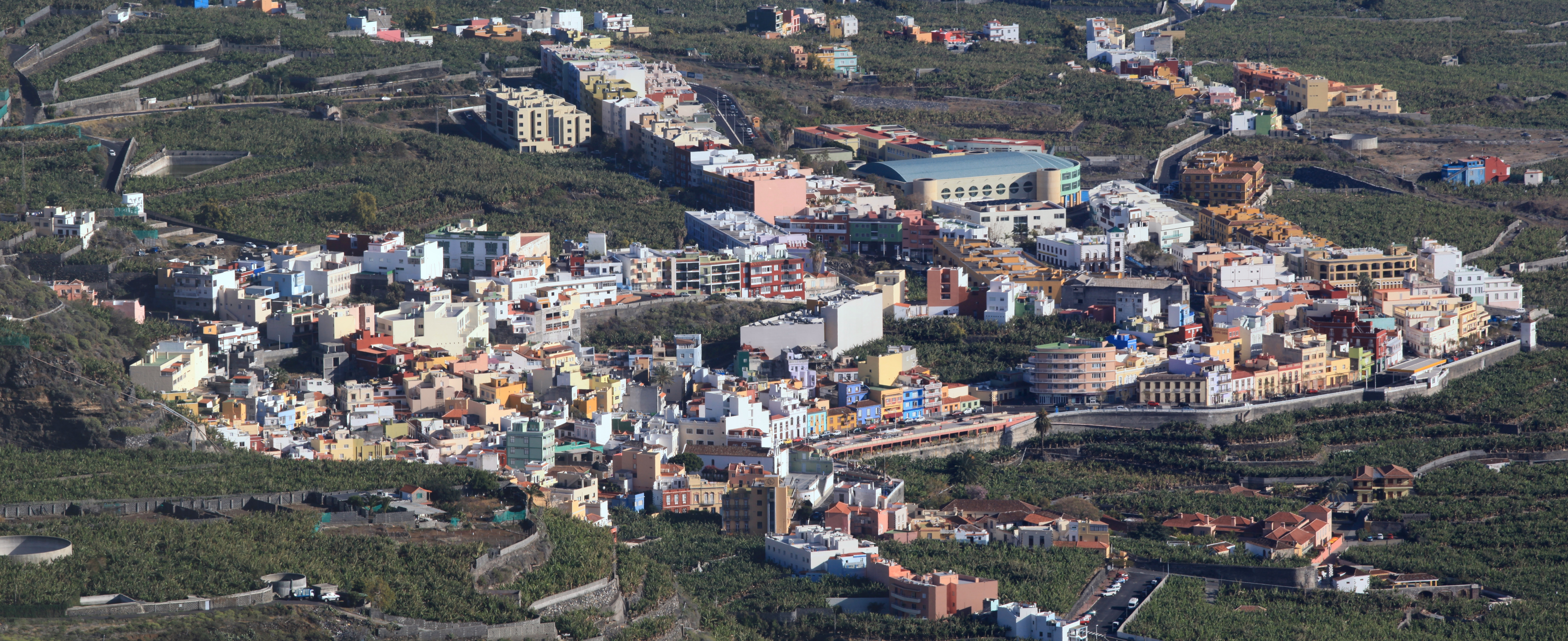 View from Mirador del Time in Tijarafe to Tazacorte, La Palma, Canary Island, Spain